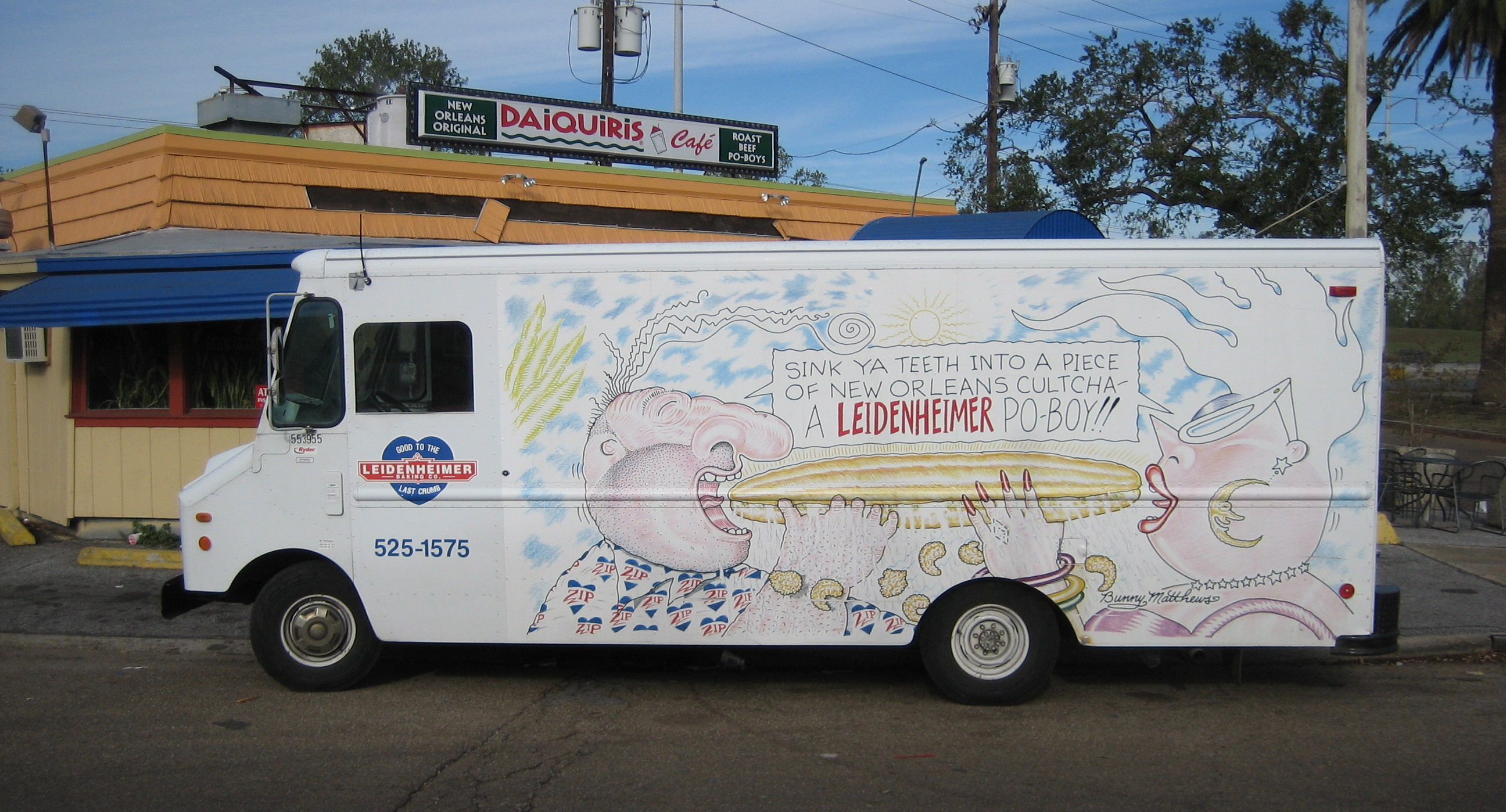 New Orleans: Truck for local bakery, a locally well known supplier of po-boy bread, with advertising cartoon featuring the characters "Vic & Nat'ly" by cartoonist Bunny Mathews.